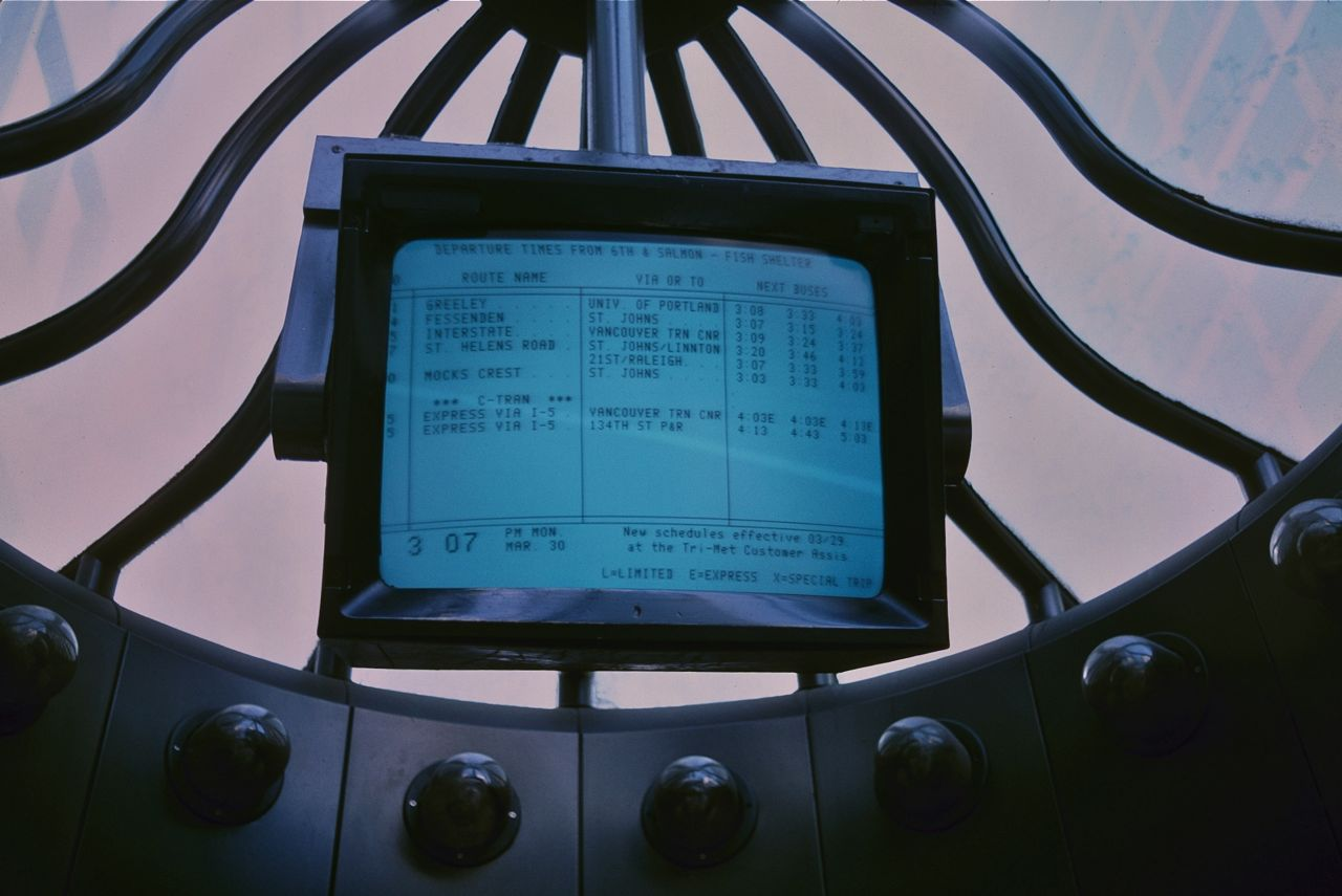 Closed-circuit television monitor mounted inside a passenger shelter at a bus stop on Tri-Met's Portland Mall transit mall (in Portland, Oregon) in 1987. The mall opened in 1977 with these black-and-white information monitors, but color monitors replaced them in late 1988. This specific shelter was on 6th Avenue at Salmon Street, one of the "Fish" symbol stops in Tri-Met's organization of Mall bus stops. The monitors provided the next three scheduled departure times for each route serving a given stop, and in the case of the Fish stops, this included some C-Tran service to Vancouver, Washington. (At the time of the photo, this monitor was slightly out of adjustment, causing the first character of each line to be out-of-view; the heading should have read "NO.", and the numbers of the fourth and fifth routes shown as 17 and 40.)